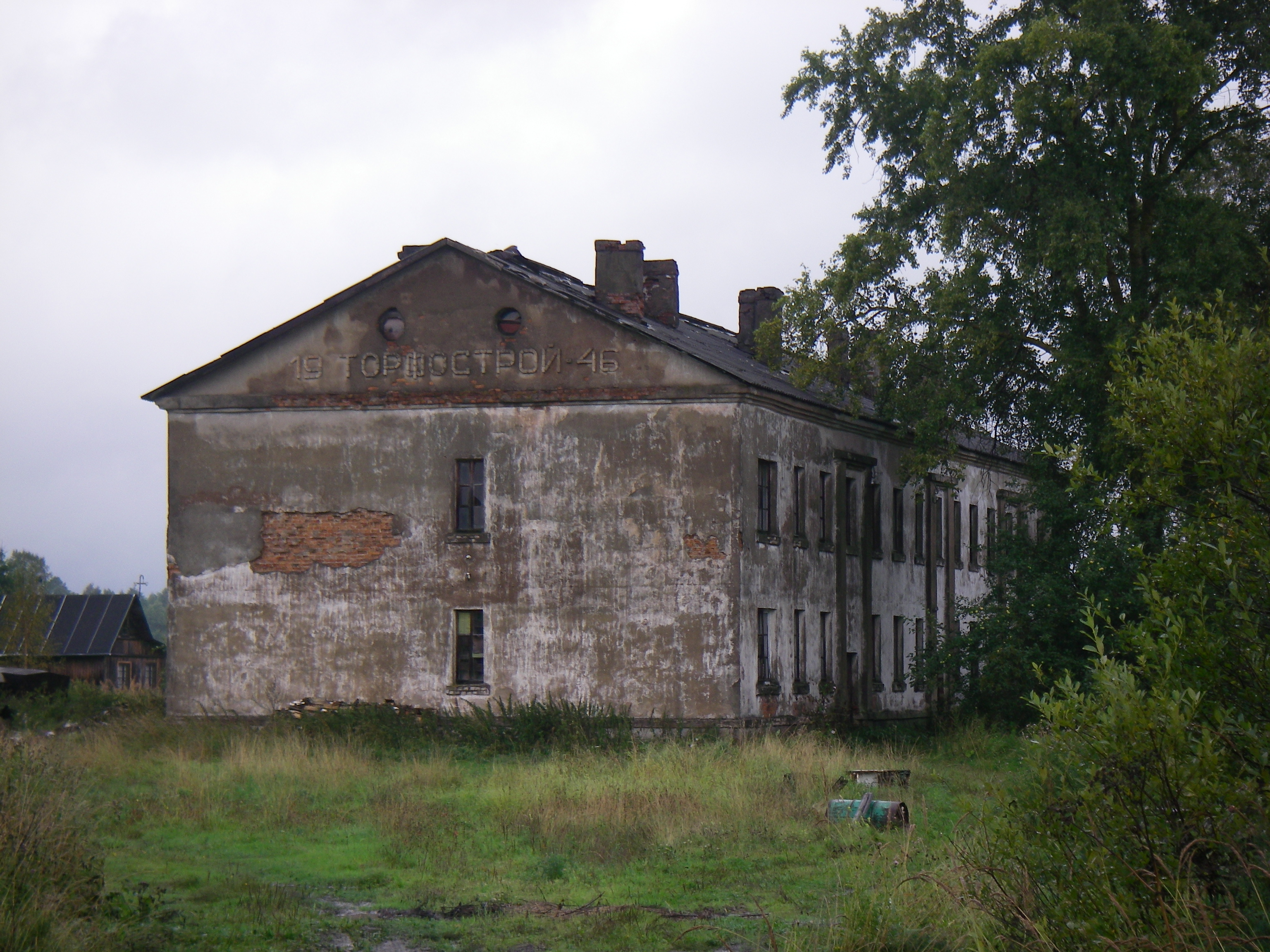 House in labour settlement #5 near Naziya